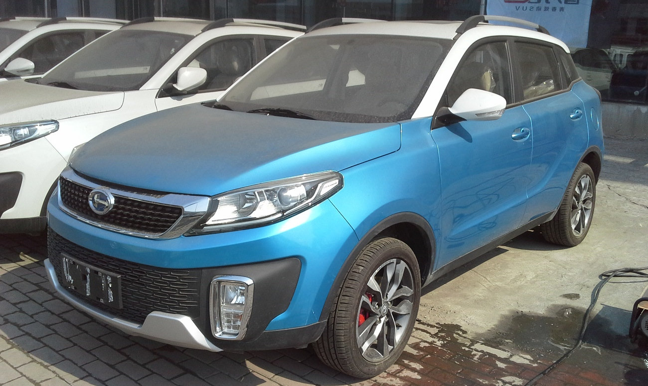 Changhe Q35 photographed in Harbin, Heilongjiang province, China.